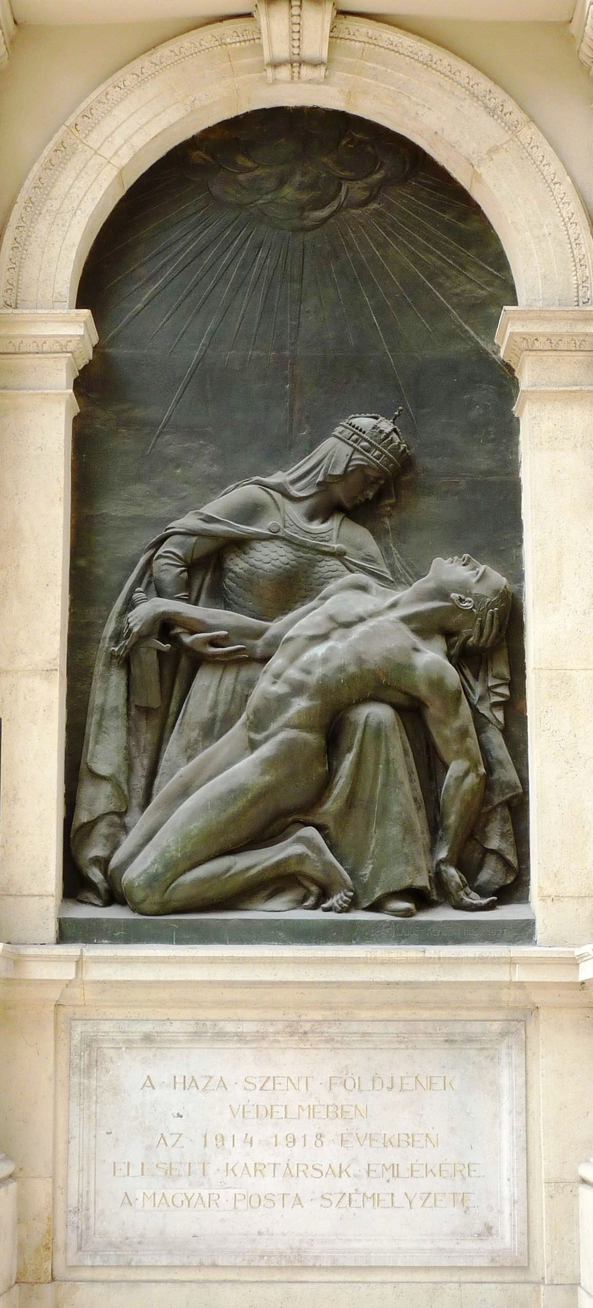 Plaque commemorating about 600 postal workers died in battle in the WWI. It has been placed on the wall of the former main post office of Budapest in 1927. The authors of the relief are Messrs. Lajos Berán and Hugó Keviczky. (Budapest, District V, Párizsi Street Nr 8)